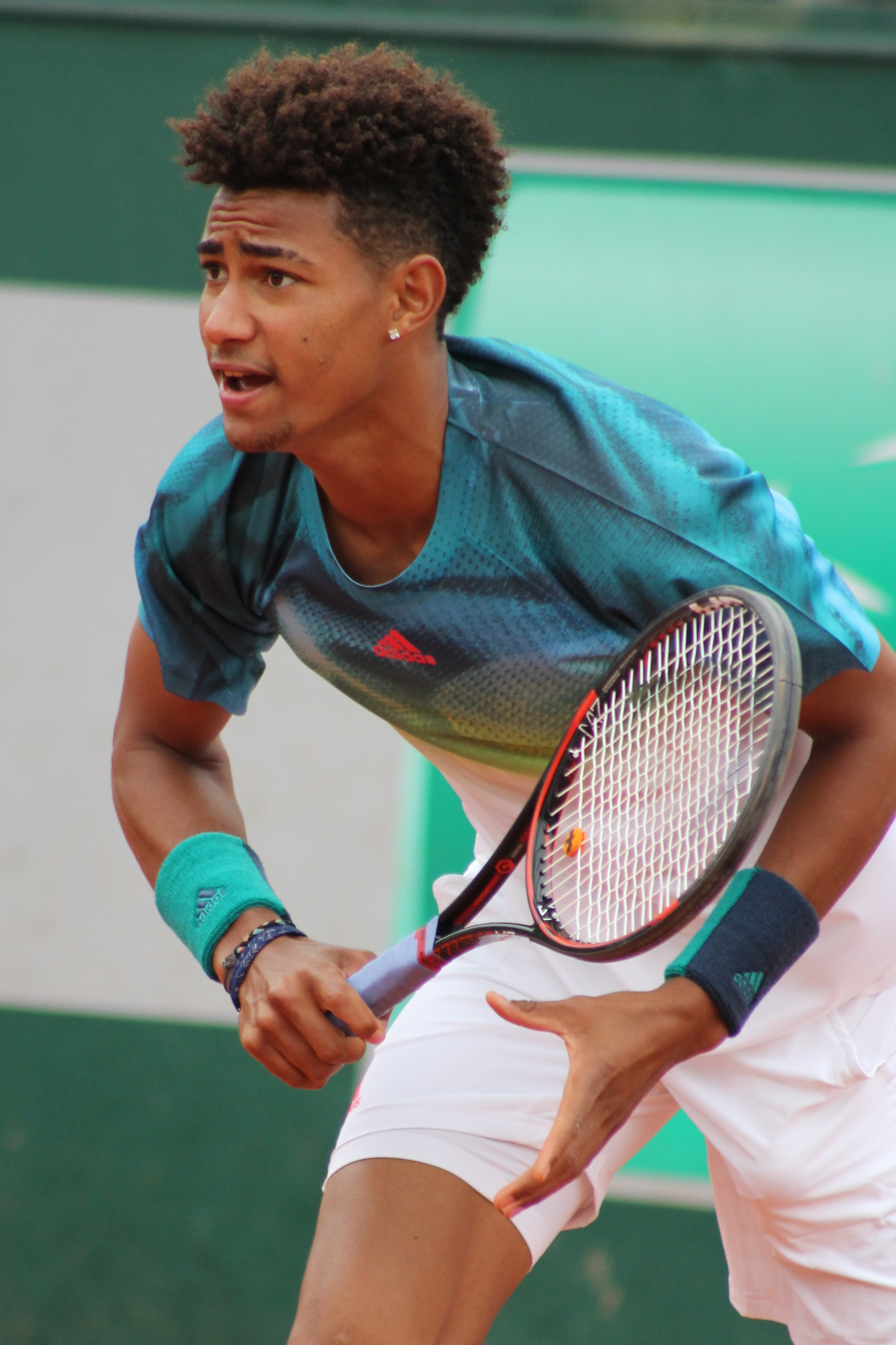 Hemery RG16 (7)